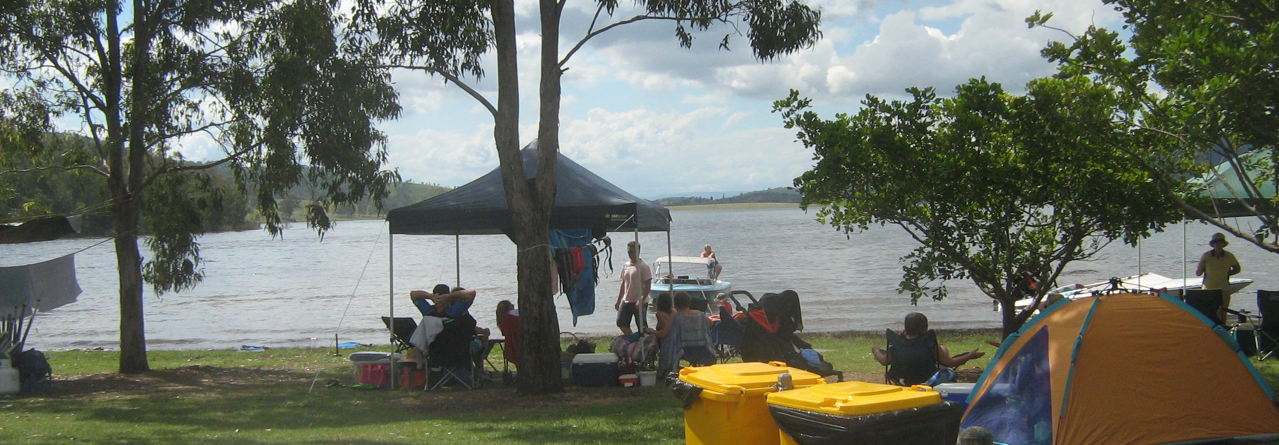 Campsite of Lake Somerset, QLD.